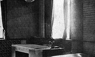 The Kantei (Office of Japanese Prime Minister)